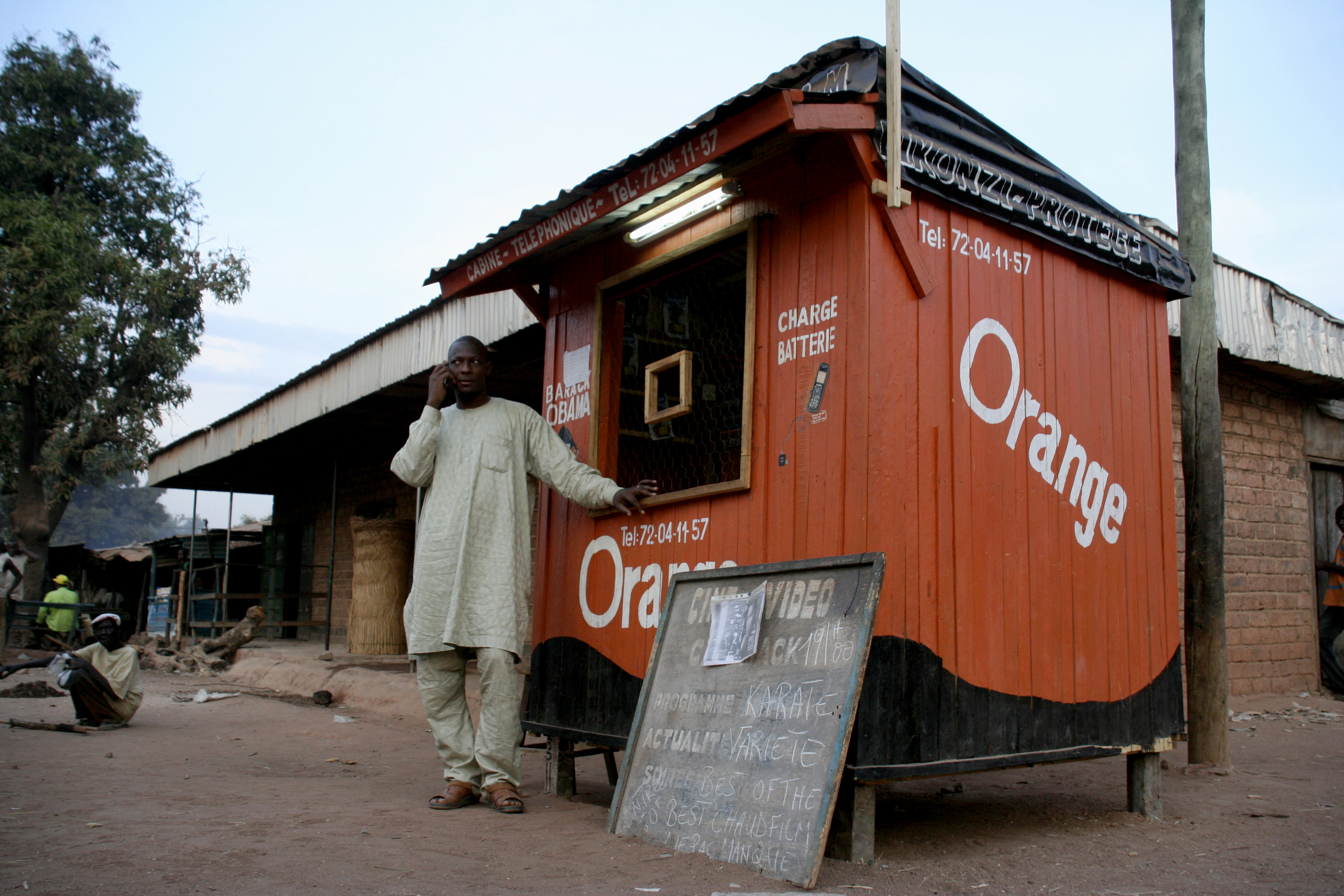 Central African Republic's potential is being recognised by foreign investors. The Orange mobile phone network reached the town of Paoua in northwest CAR in early 2009. In just a matter of weeks the high street saw a proliferation of these small phone shacks, selling handsets, SIM cards and air-time - evidence of the rapid expanse of the telecoms industry. Photo: Simon Davis/DFID